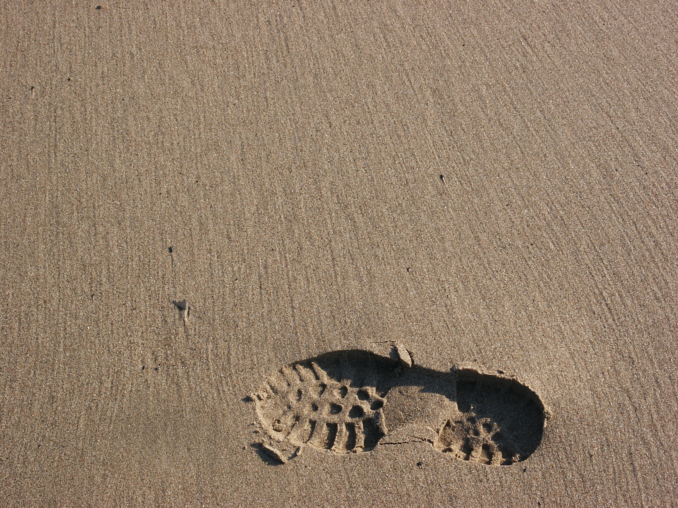 Current lineation in sandy intertidal zone near Lawrencetown, Nova Scotia. Flow direction was from the top to bottom of the image.